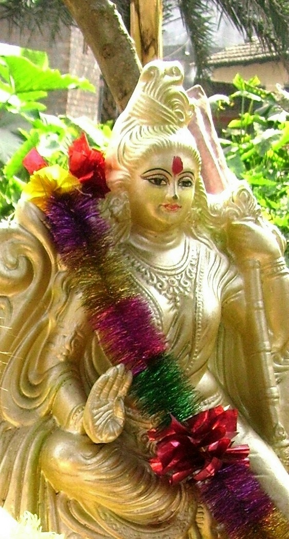 Saraswati, Hindu-goddess of learning and arts. Abhayamudra, gesture of reassurance and safety, is a hand pose, which dispels fear and accords divine protection and bliss to the devotee.